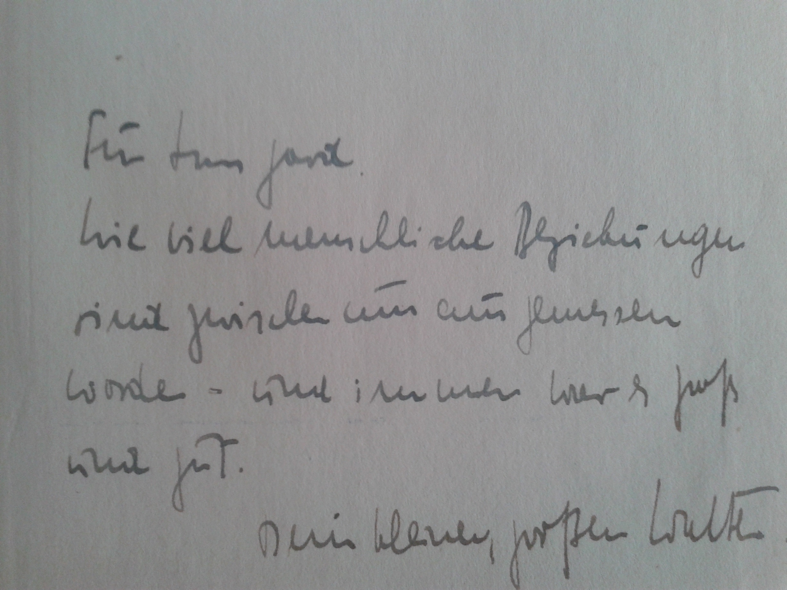 Handwritten dedication of and in Walter Jens: 'Nein. Die Welt der Angeklagten, Hamburg 1950.